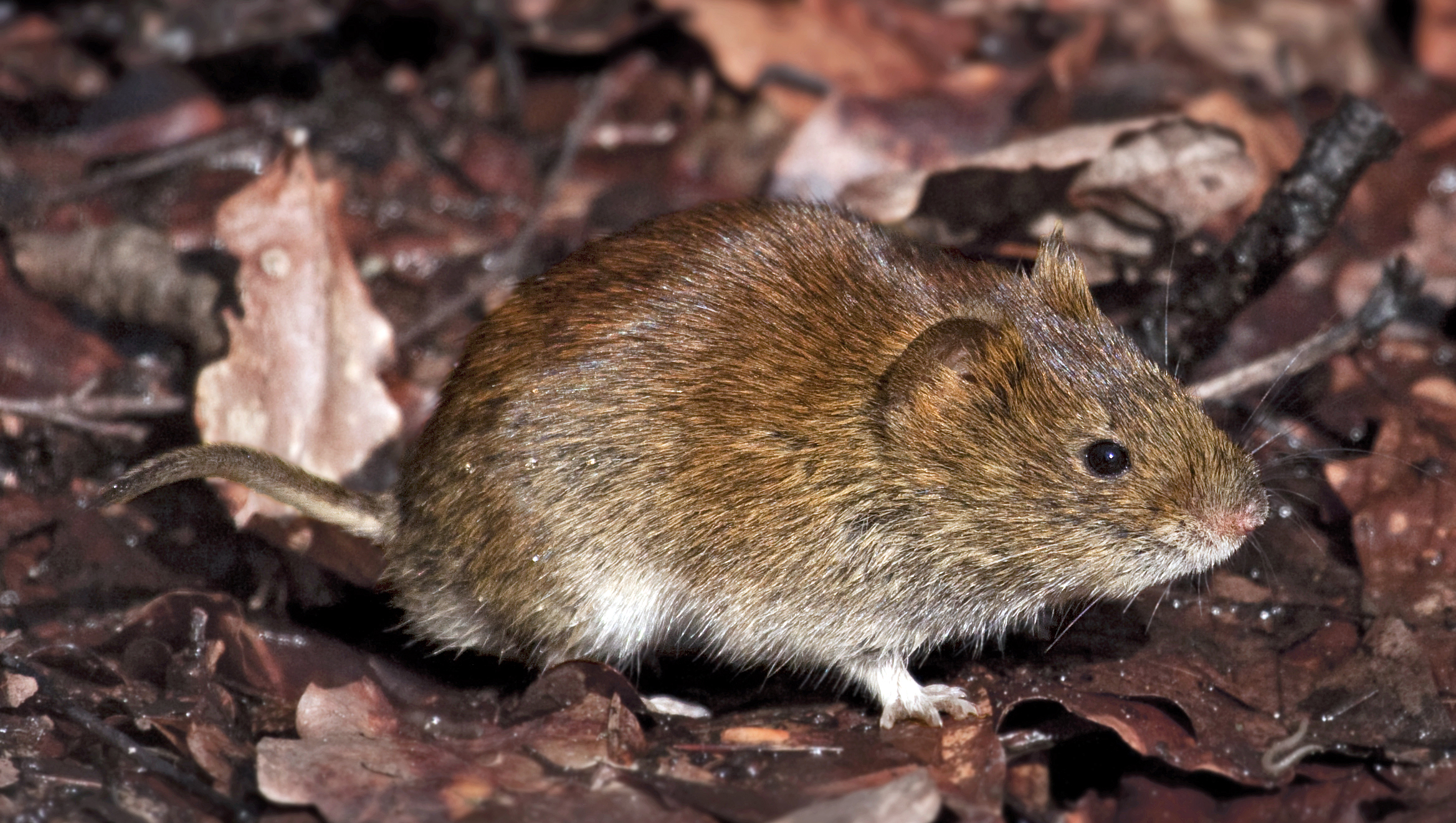 Bank Vole sitting on the forest floor